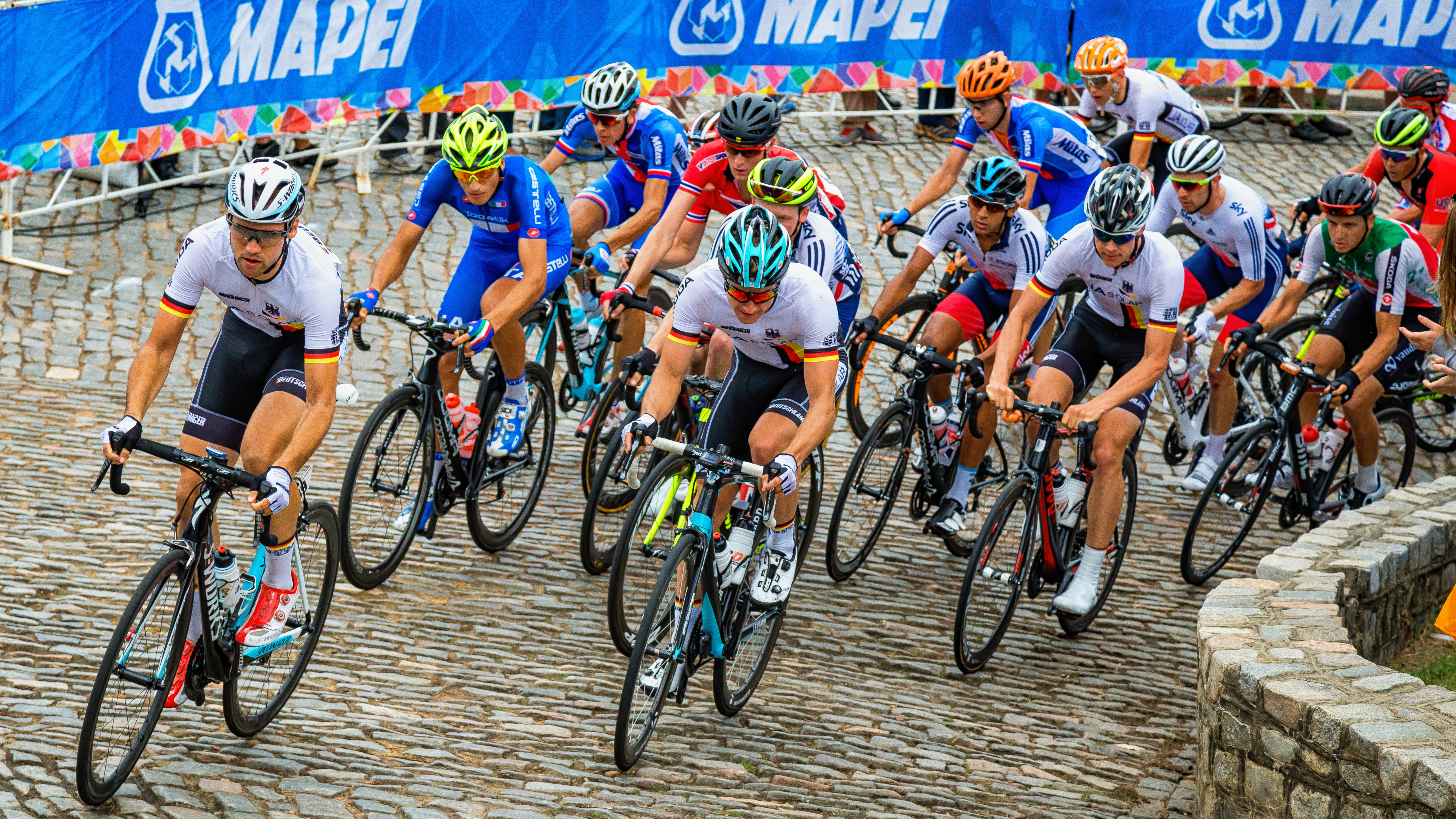 Under 23 Men's Road Race, UCI Worlds, Richmond, VA, USA UCI2015